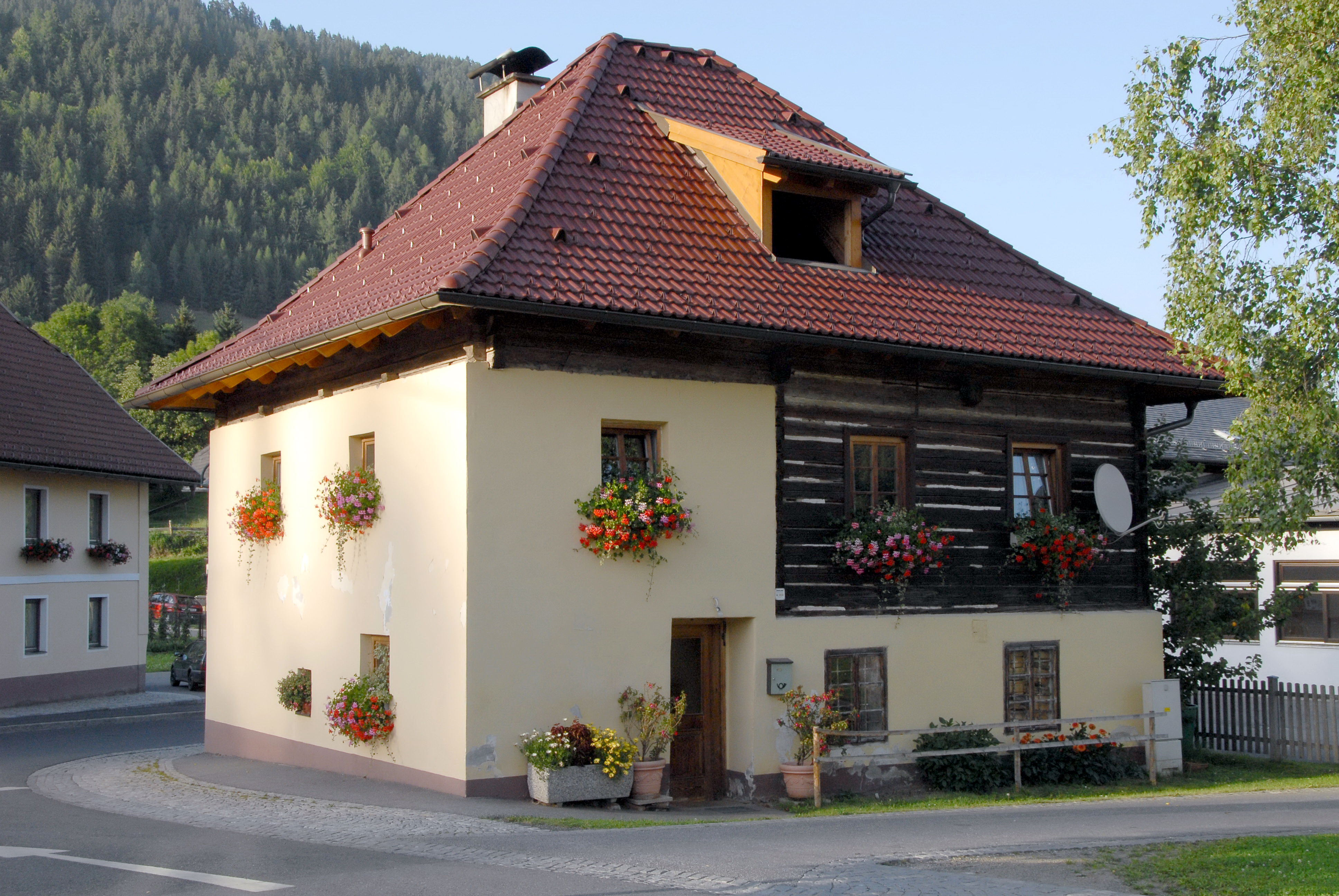 Old residential house at Steuerberg, Carinthia, Austria